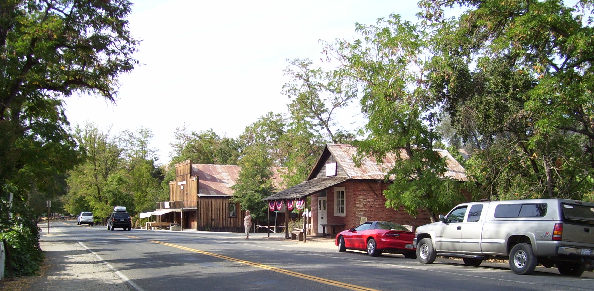 Street scenery in Coloma, California, USA